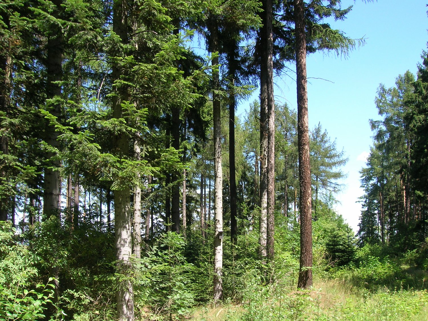 From the natural reserve Hošťanka (silver fir), village Slavice, Třebíč District, Czech republic. Trees are Abies alba (pale bark) and Larix decidua (dark brown bark).